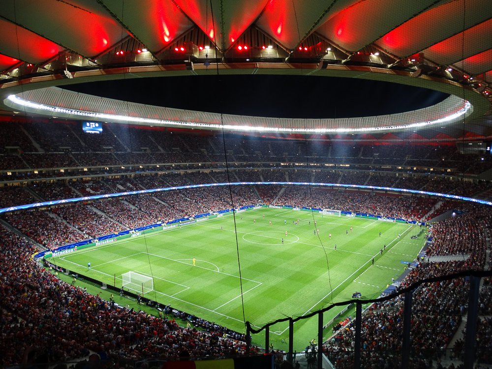 Estadio Metropolitano on 27 September 2017